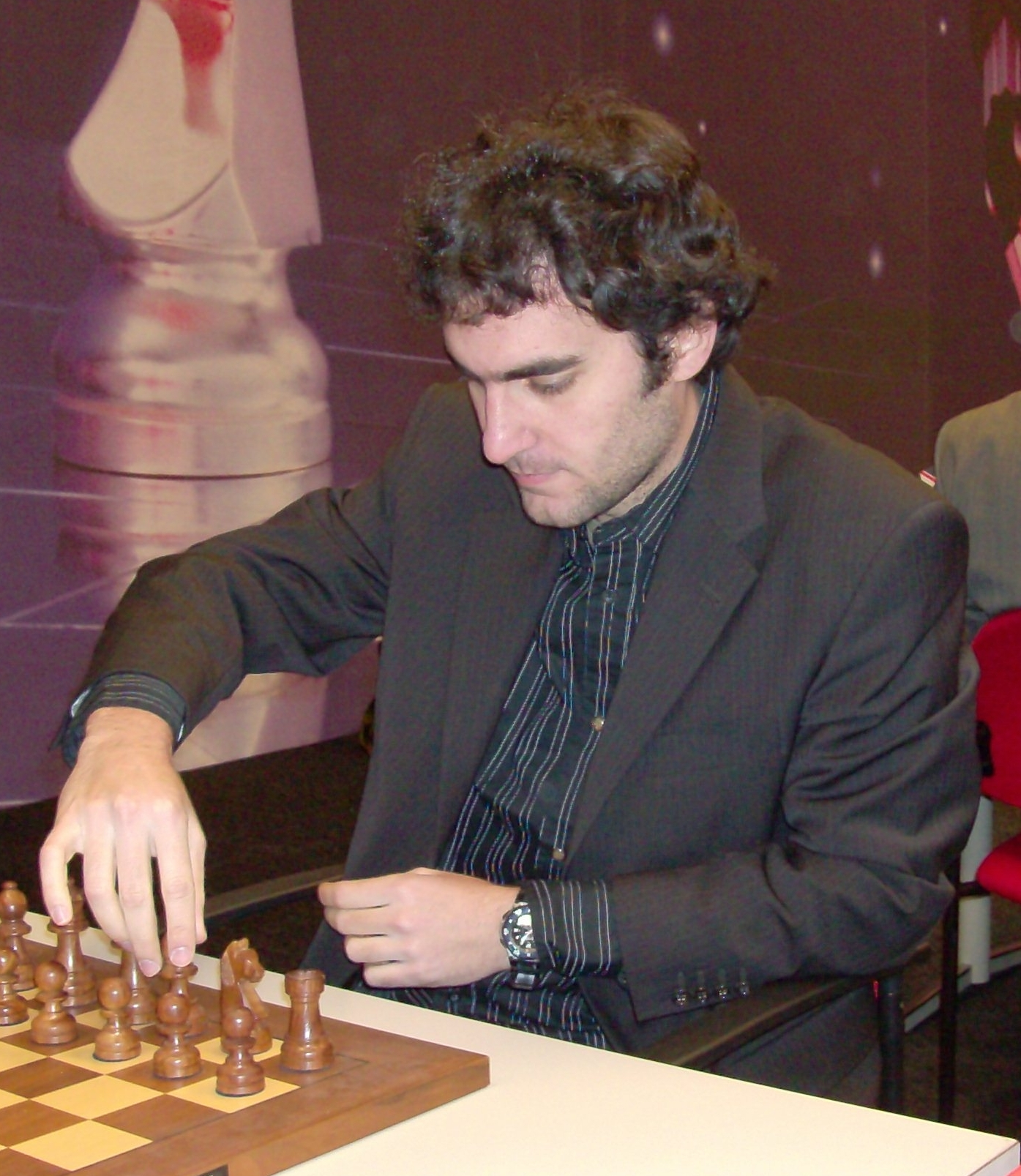 Leinier Domínguez, chess grandmaster from Cuba